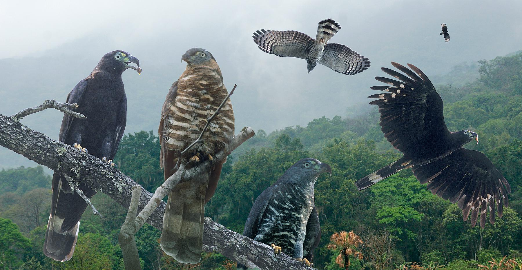 Hook-billed Kite From The Crossley ID Guide Eastern Birds